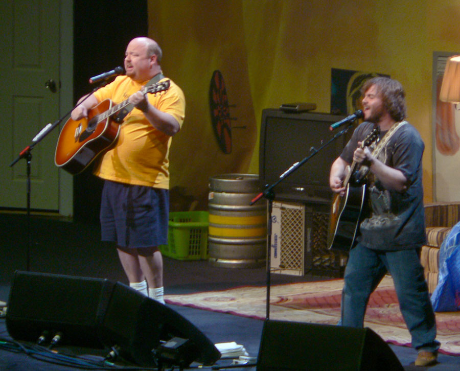 Jack Black and Kyle Gass of Tenacious D performing live